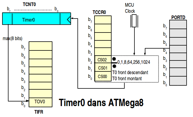 ATMega8 Timer 0